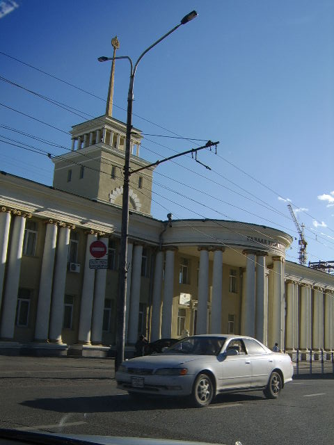 The Mongolian Ministry of Foreign Affairs in Ulaanbaatar, built in the style of Stalin's Classicism. Photographer Gantuya